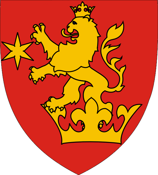 Coatt of arms of Oltenia in 1877